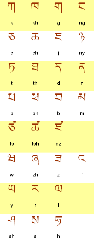 Description: Wylie transliteration of Tibetan script (consonants) Source: print screen Date: September 2005 Author: --Immanuel Giel 10:08, 26 September 2005 (UTC) Other versions: none